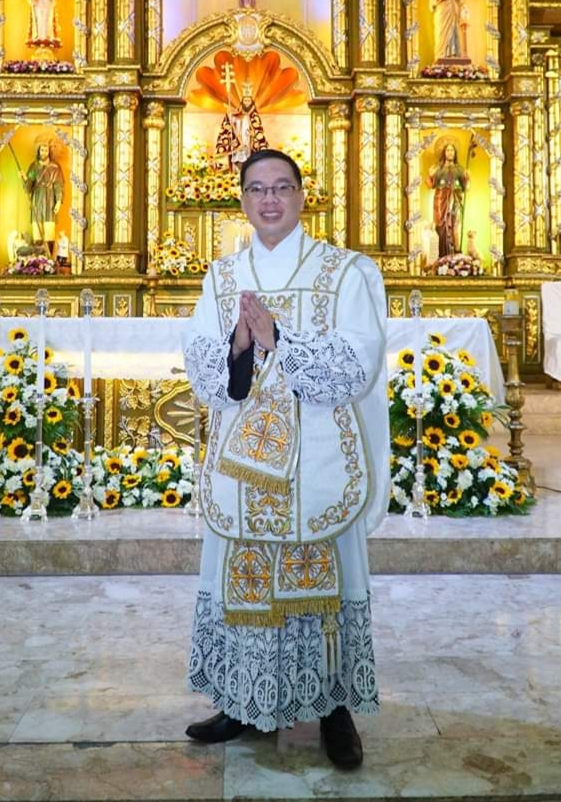 Priest wearing traditional vestments